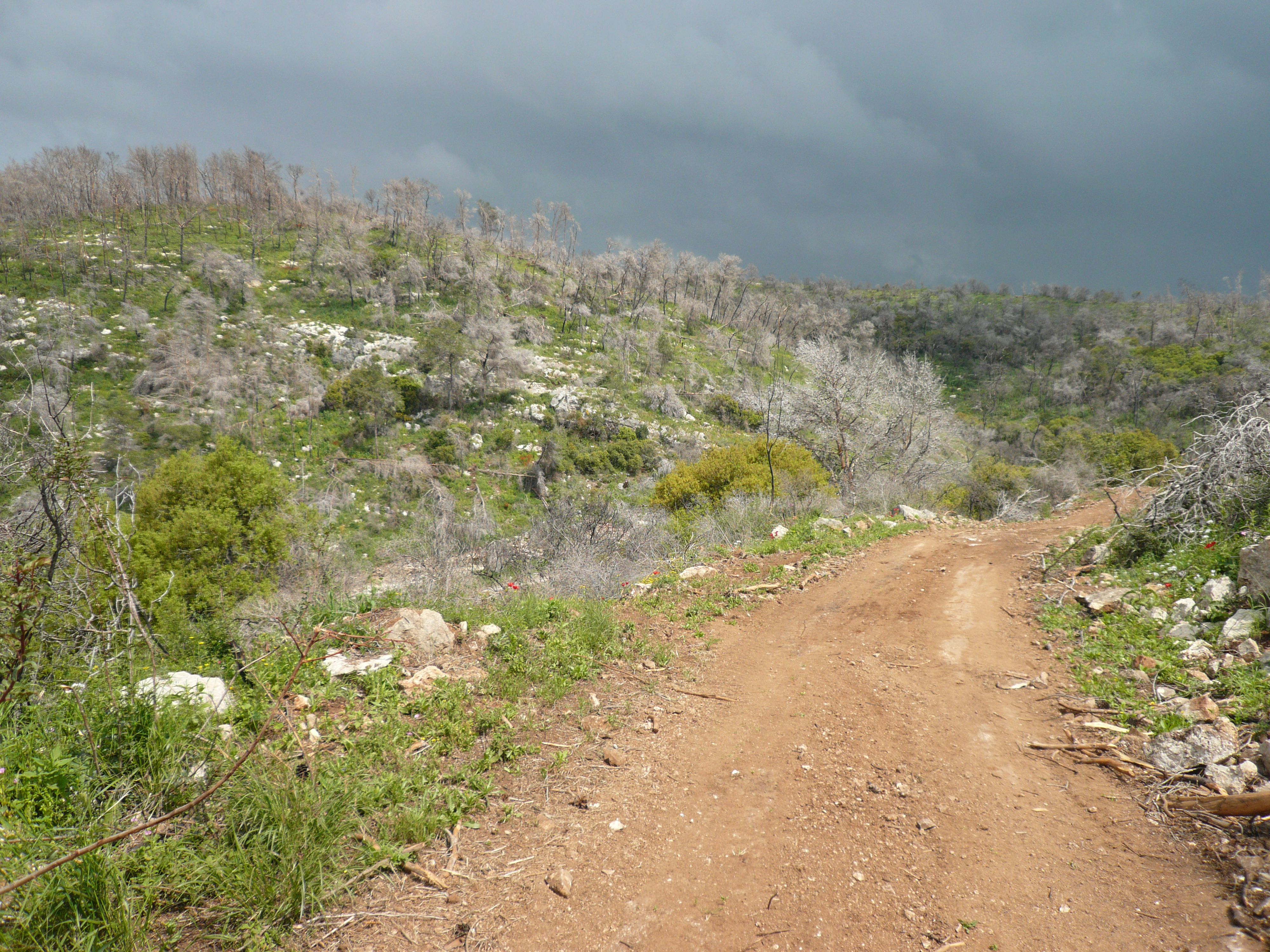 Area of the forest fire of 2010 in Karmel, Israel, as seen in spring 2012